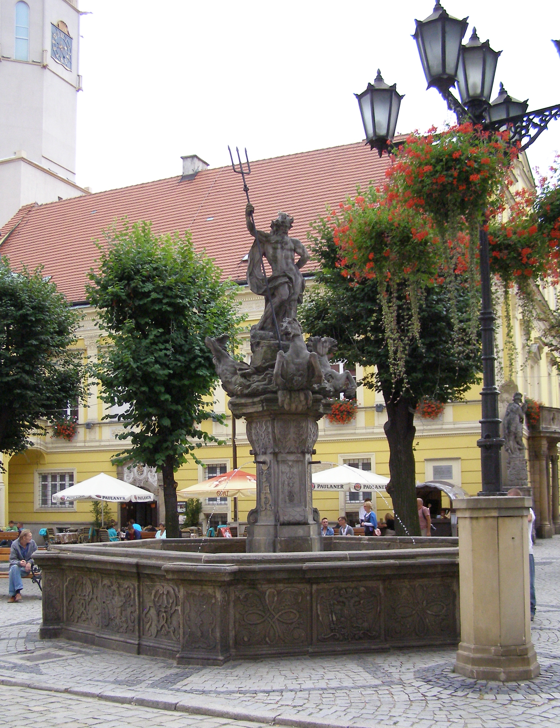 Świdnica - fountain in the Market Square